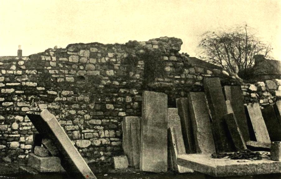 Remains of the town wall (interior) east of Working Street, Cardiff, Wales.